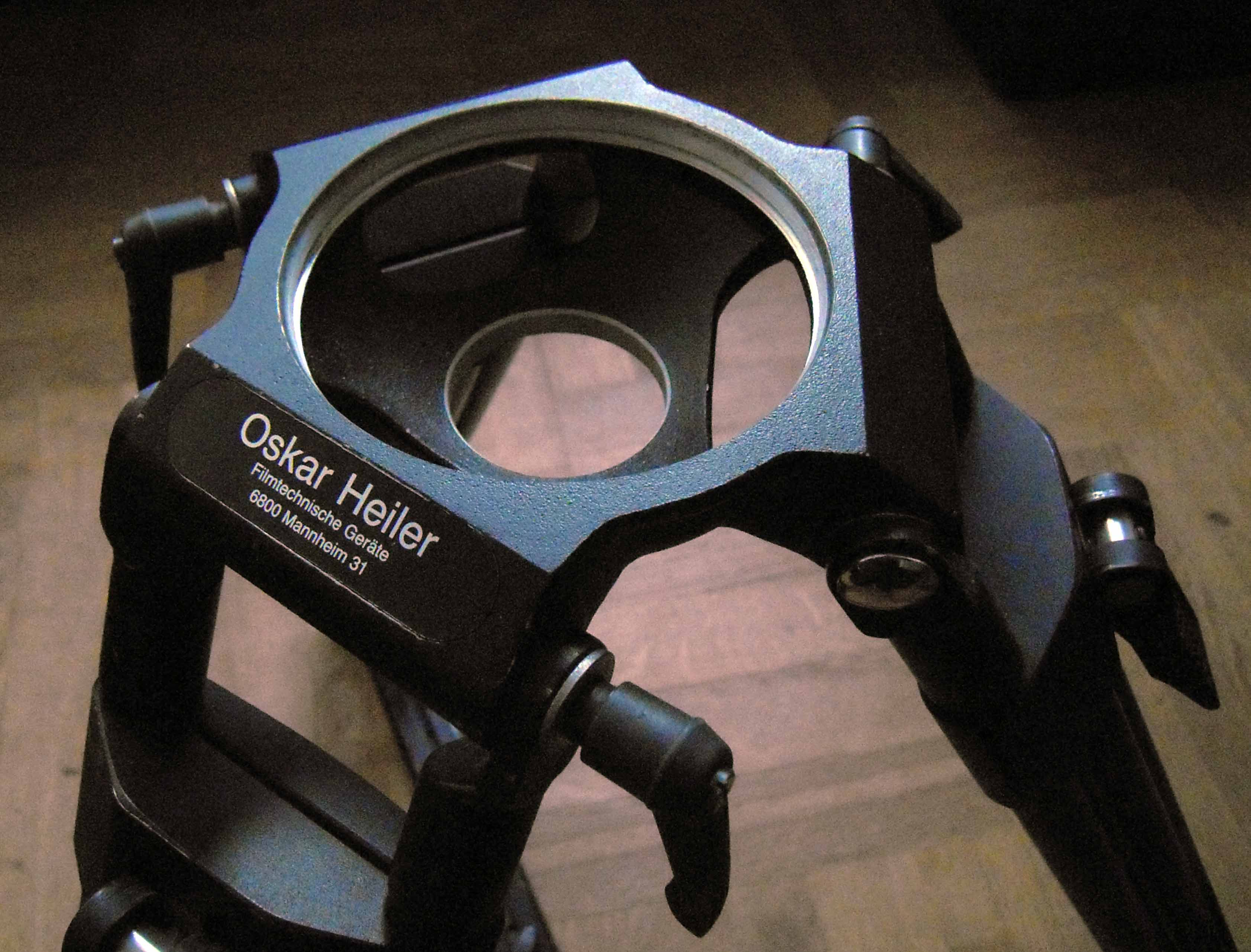 Half bowl Tripod for cine use